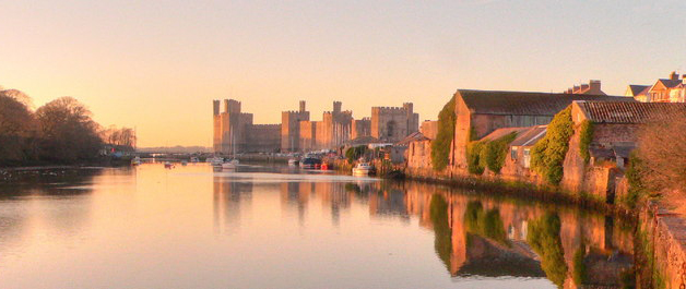 Caernarfon Castle on a February Evening River Seiont & Caernarfon Castle at Sunset in February